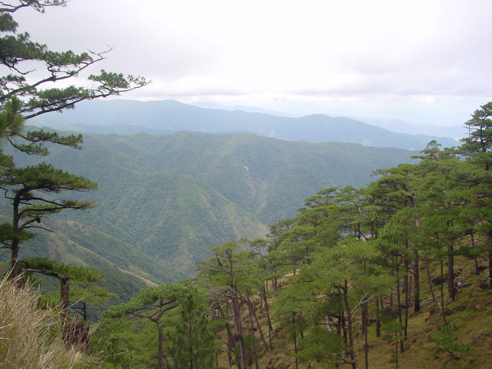 At summit of Mount Tapulao viewing the Pinus kesiya forest or the so called 'Tapulao' of sambal language.